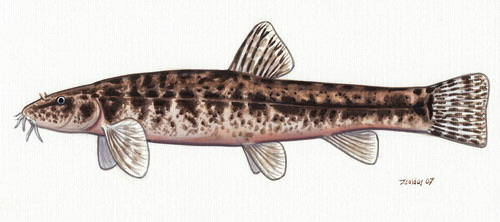 Stone loach (Barbatula barbatula).